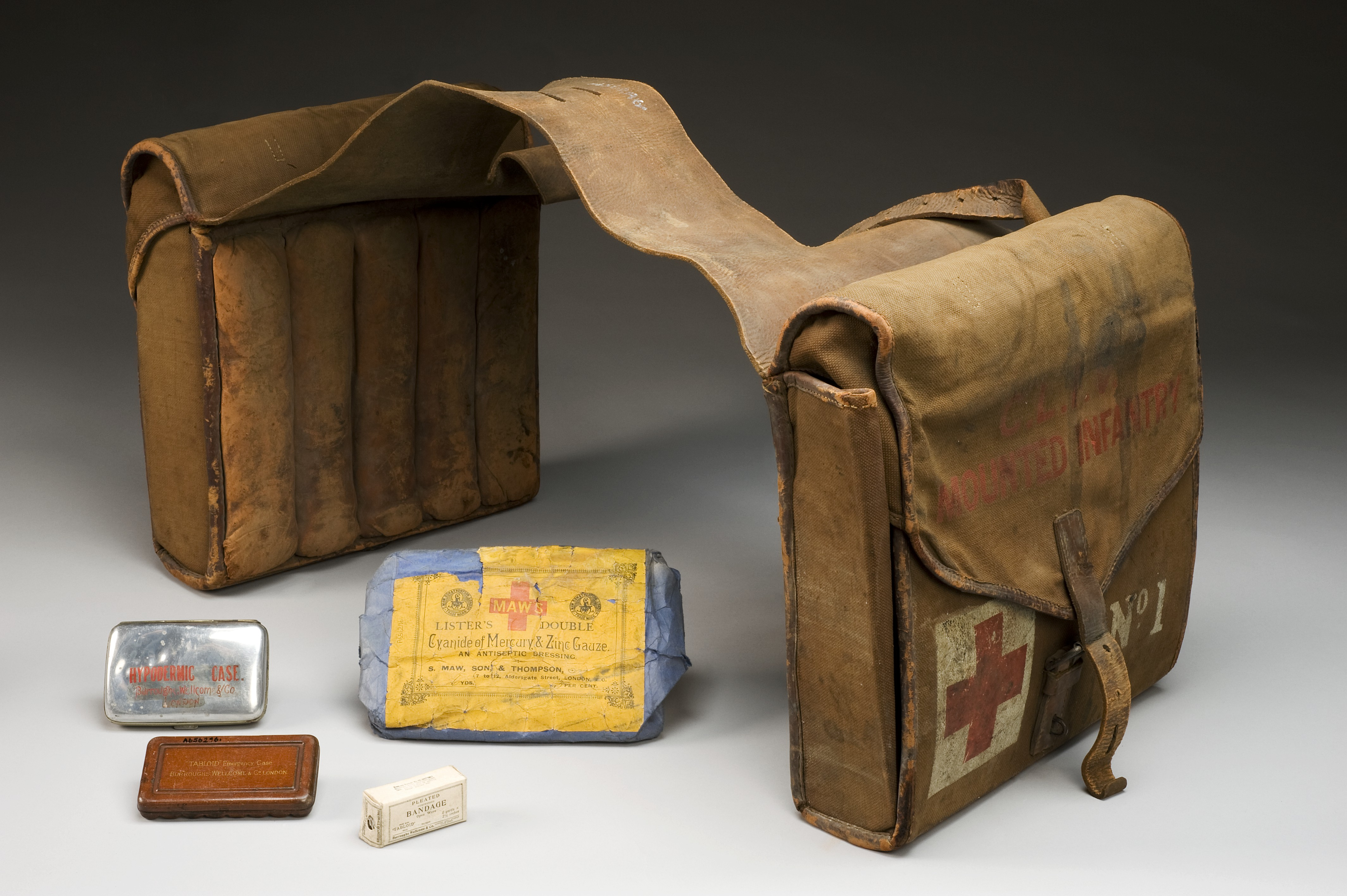 Saddle-bag first aid kit, pair of canvas panniers linked by rubber band, containing dressings, tablets and ointments, many prepared by Burroughs Wellcome and Co., English, 1914-1918. Full view, some contents arranged around bags. Graduated brey background. Wellcome Images